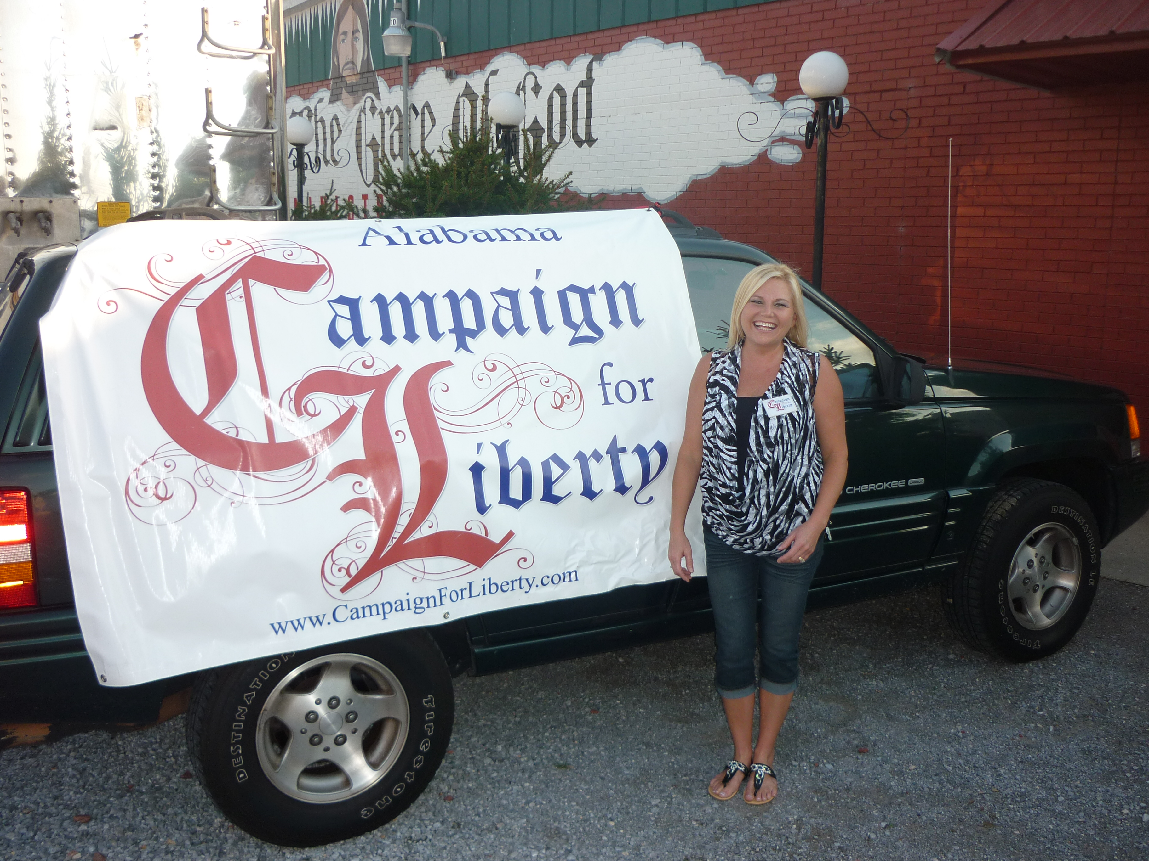 Campaign for Liberty in Alabama Regional Coordinator Barbara Hall at Chilton County's 2nd Constitutional Tour event.